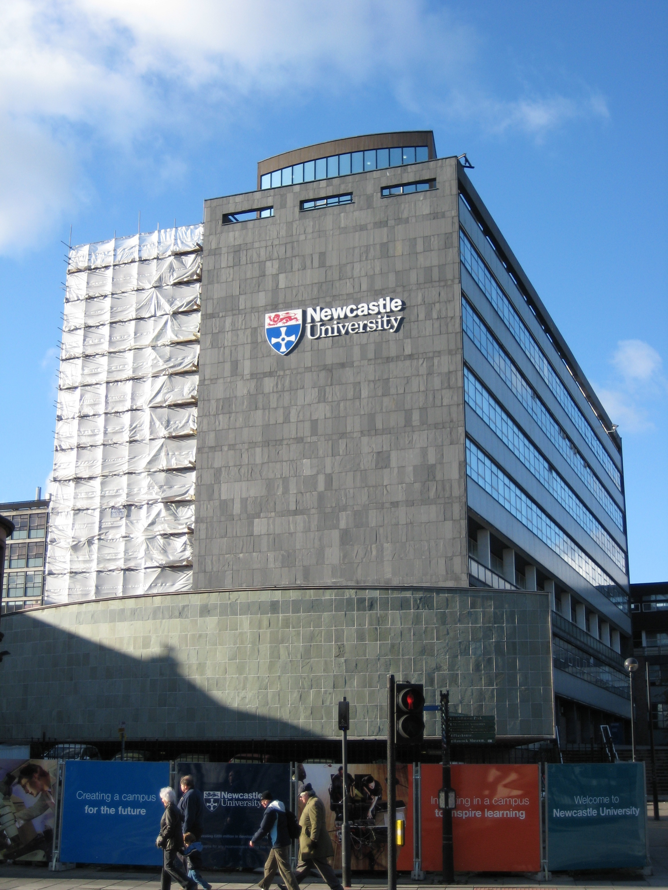 Source:Xtrememachineuk (talk) 15:03, 1 November 2008 (UTC)